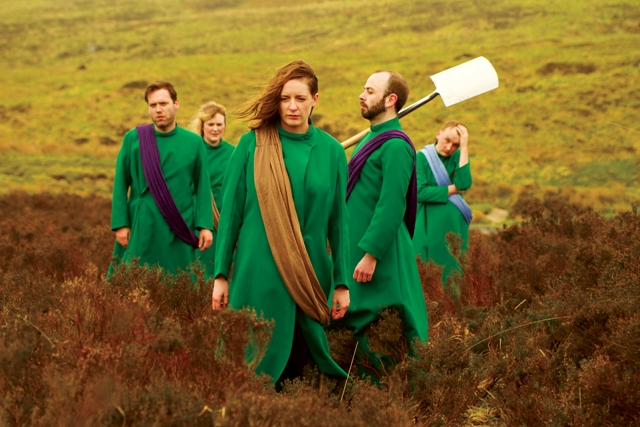 A promotional shot from Diet of Worms' 2011 production 'Cult'.